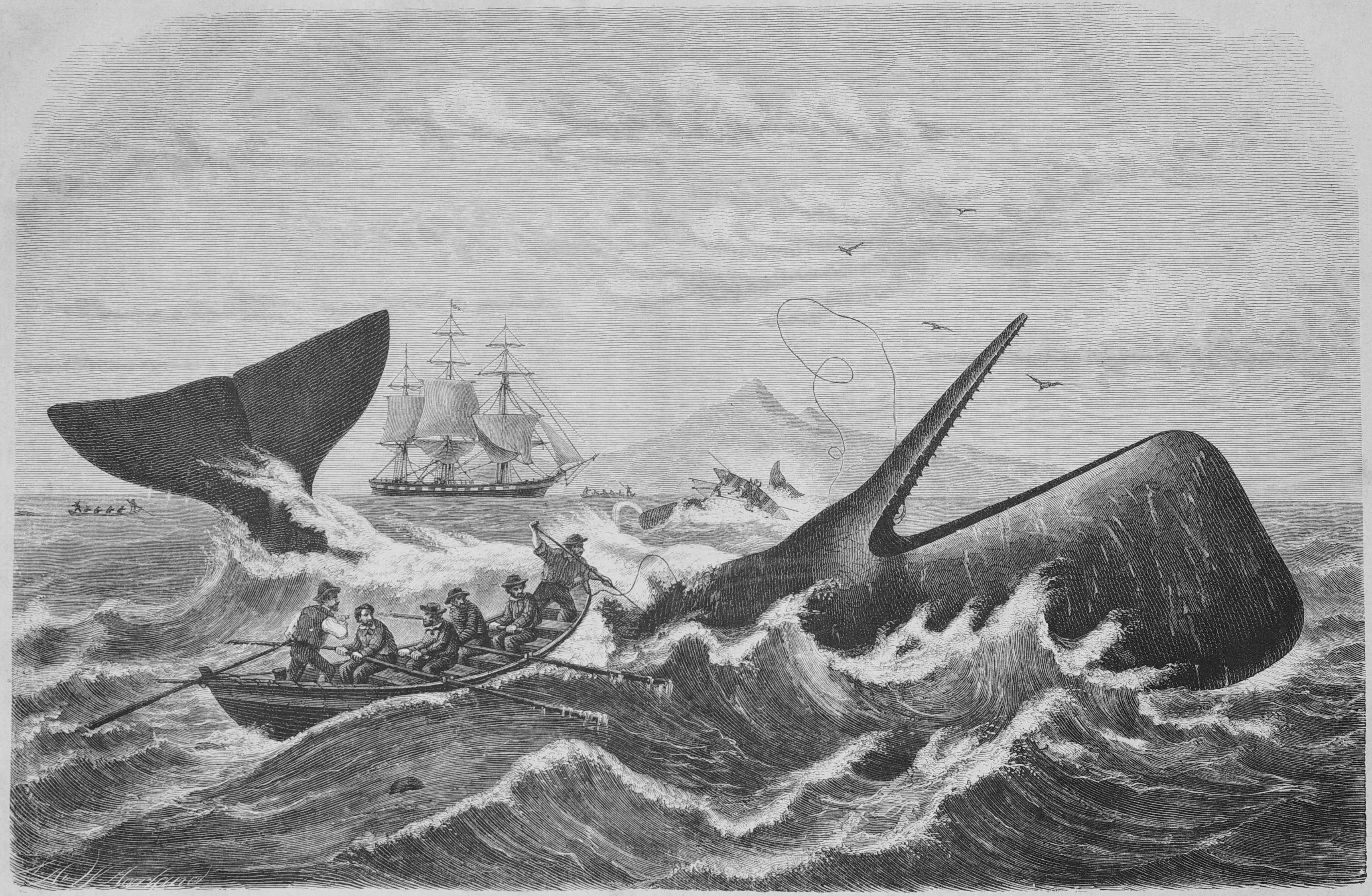 caption: "Fang eines Potwals. Nach einem amerikanischen Originalbilde."